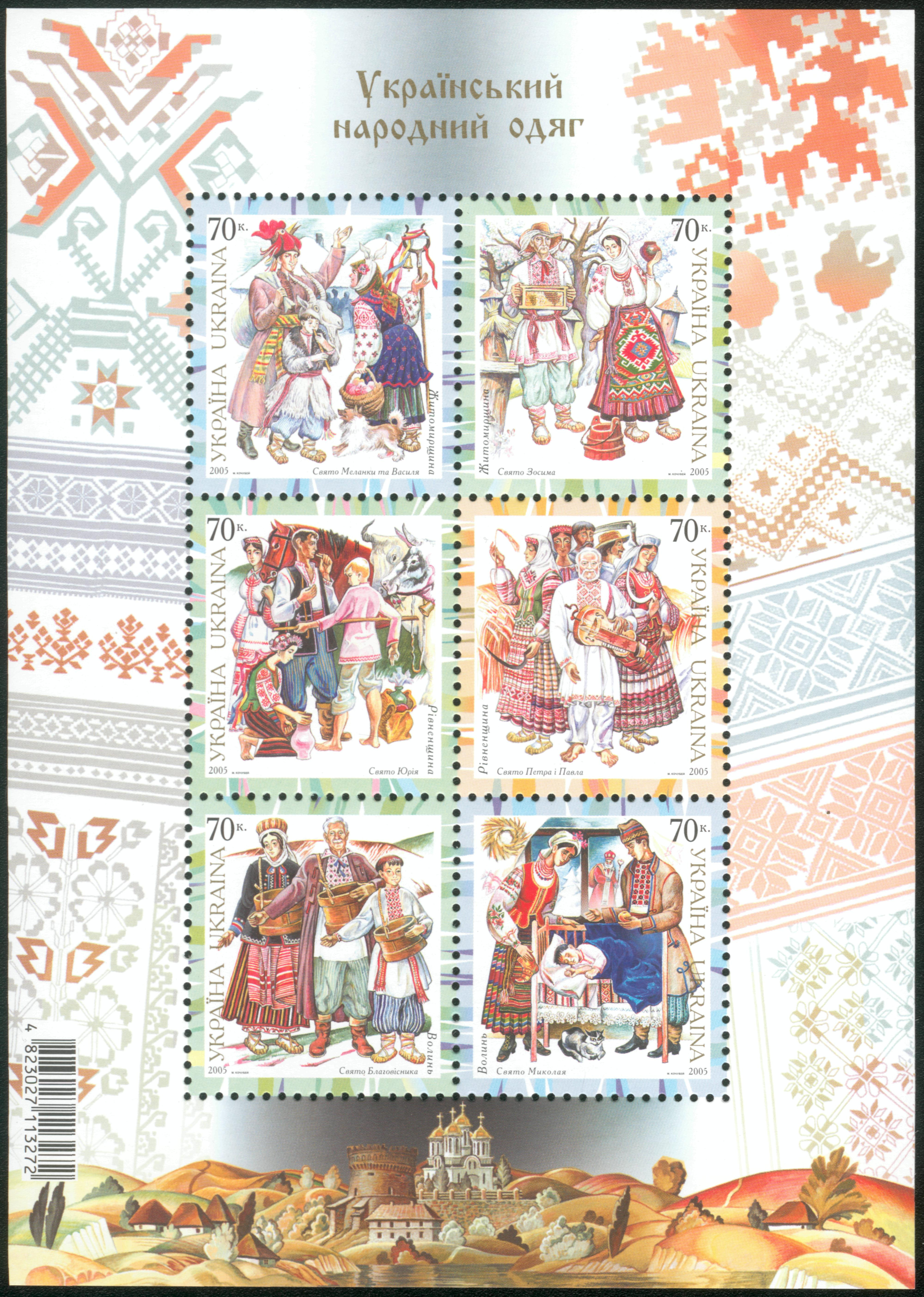 Stamp page (6 stamps) with Ukrainian traditional clothing